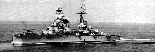 Navigazione di guerra 1949